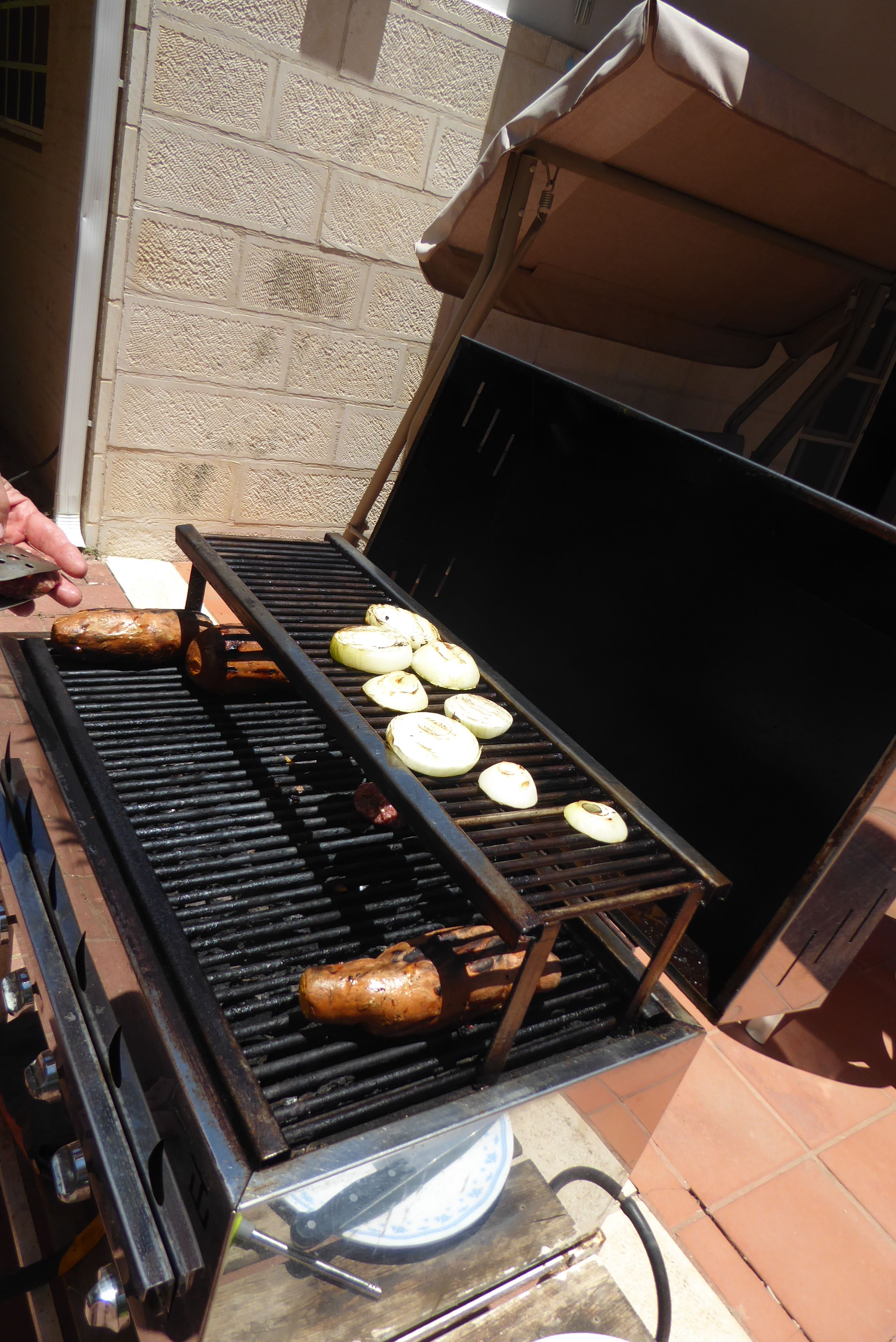 Barbecue in Israel - Onions